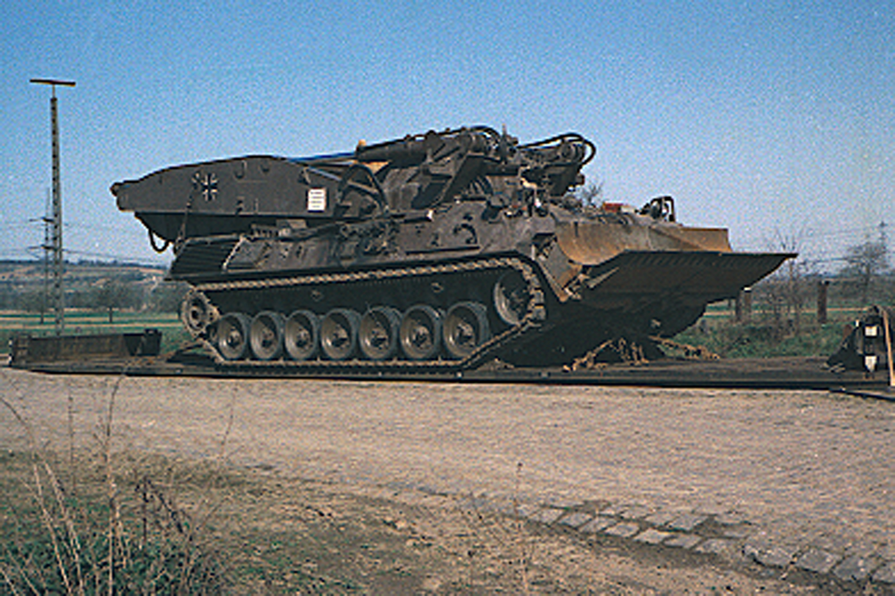 German Army Armored engineering vehicle (MAK prototype)